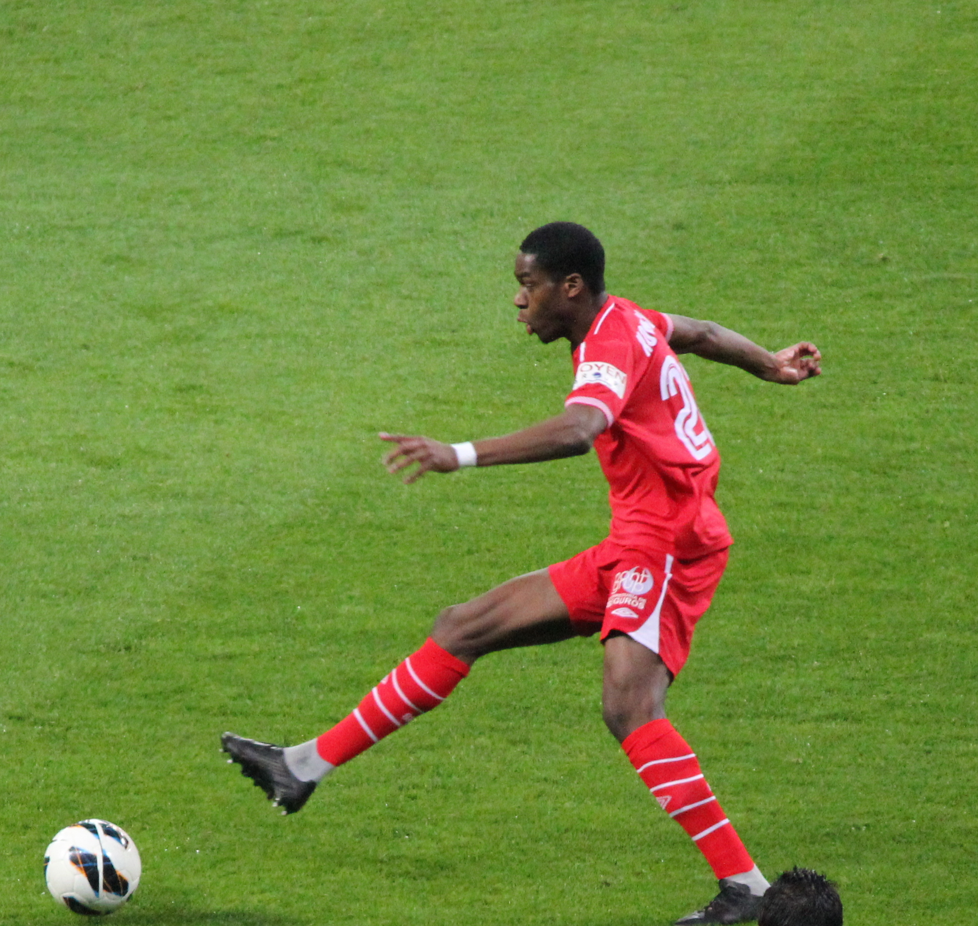 Real Madrid v Sevilla 10 February 2013 in a La Liga game at Real Madrid's home grounds.